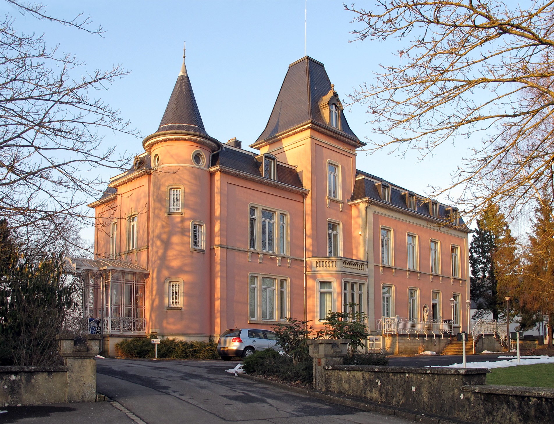 Administrative center of the Ligue HMC in Capellen, Luxembourg